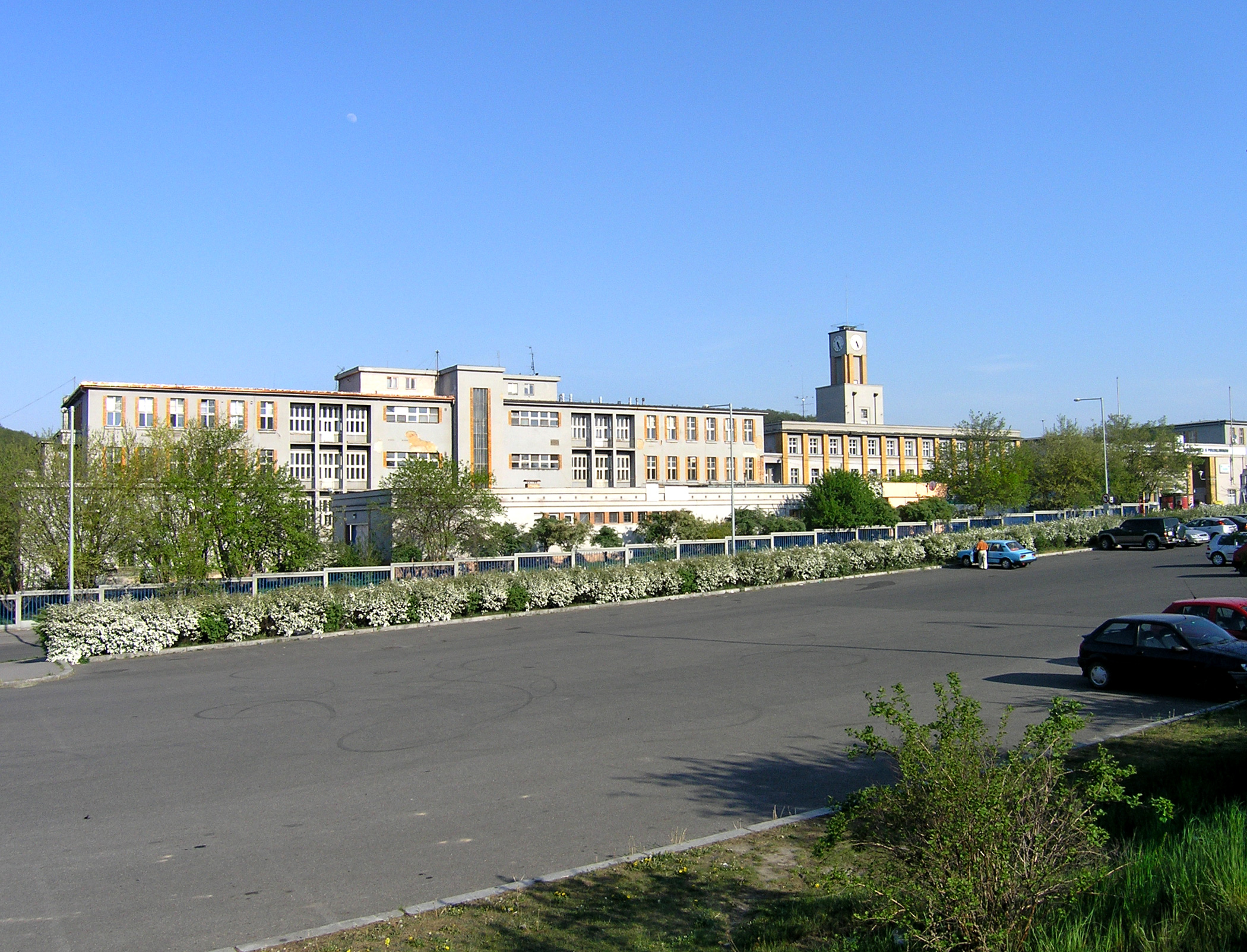 Thomayer hospital at Krč, Prague